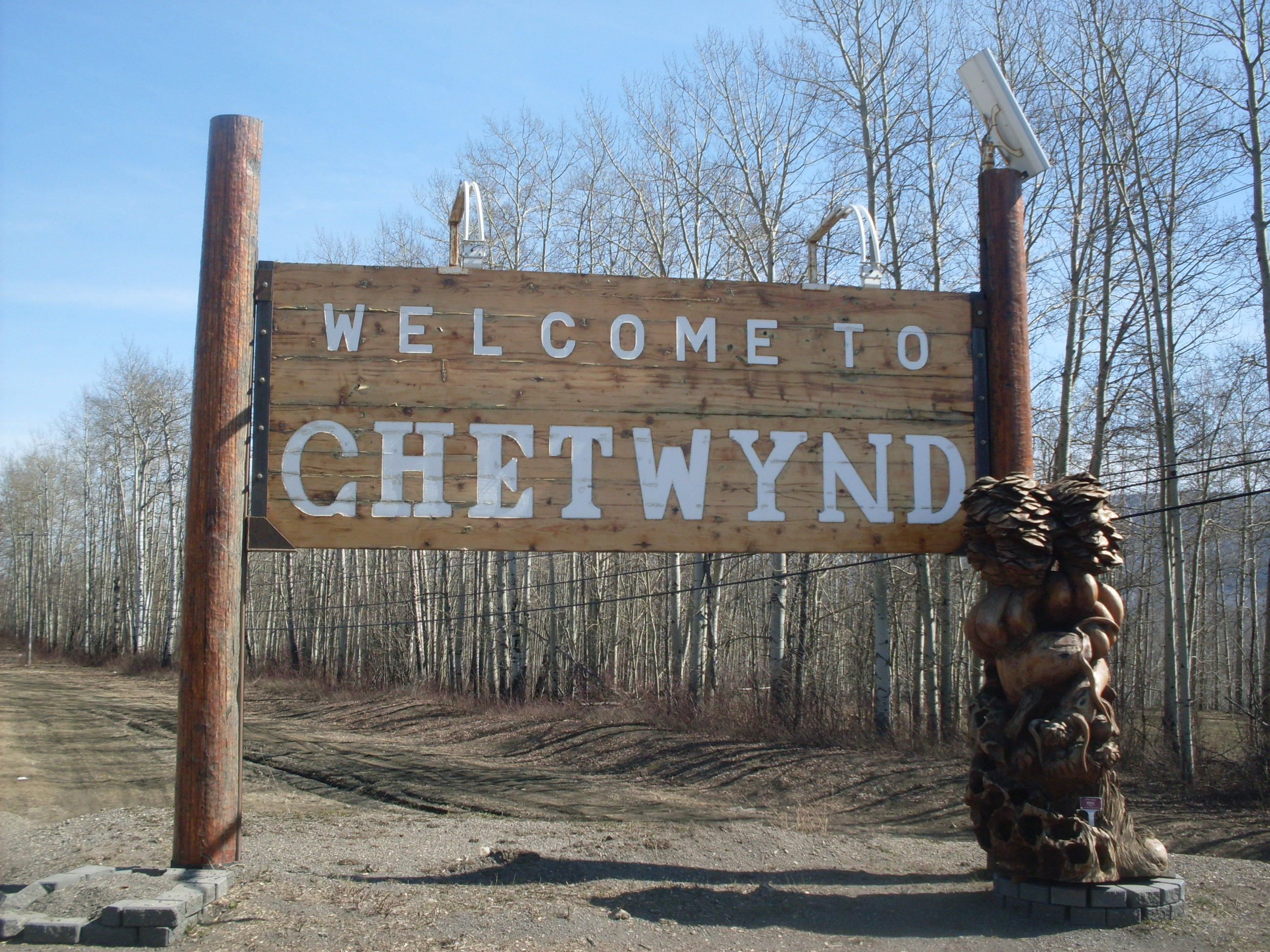 Chetwynd's welcome sign